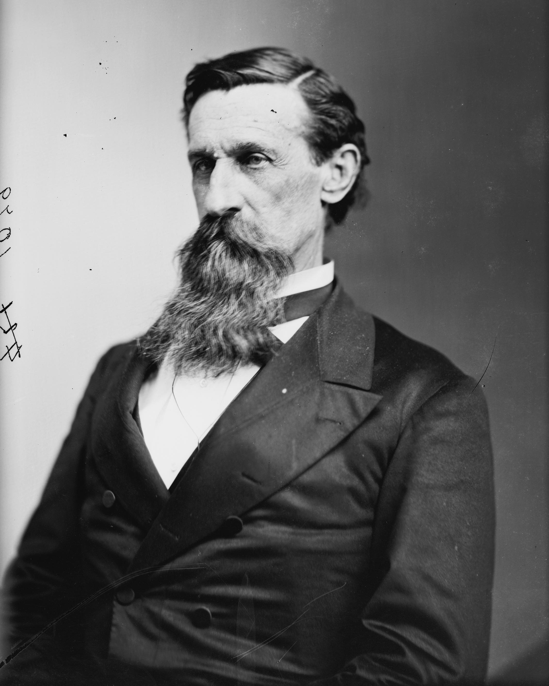 James Madison Leach. Library of Congress description: "Leach, Hon. Jas. Madison of N.C. Lt. Col. In Confederate Army".